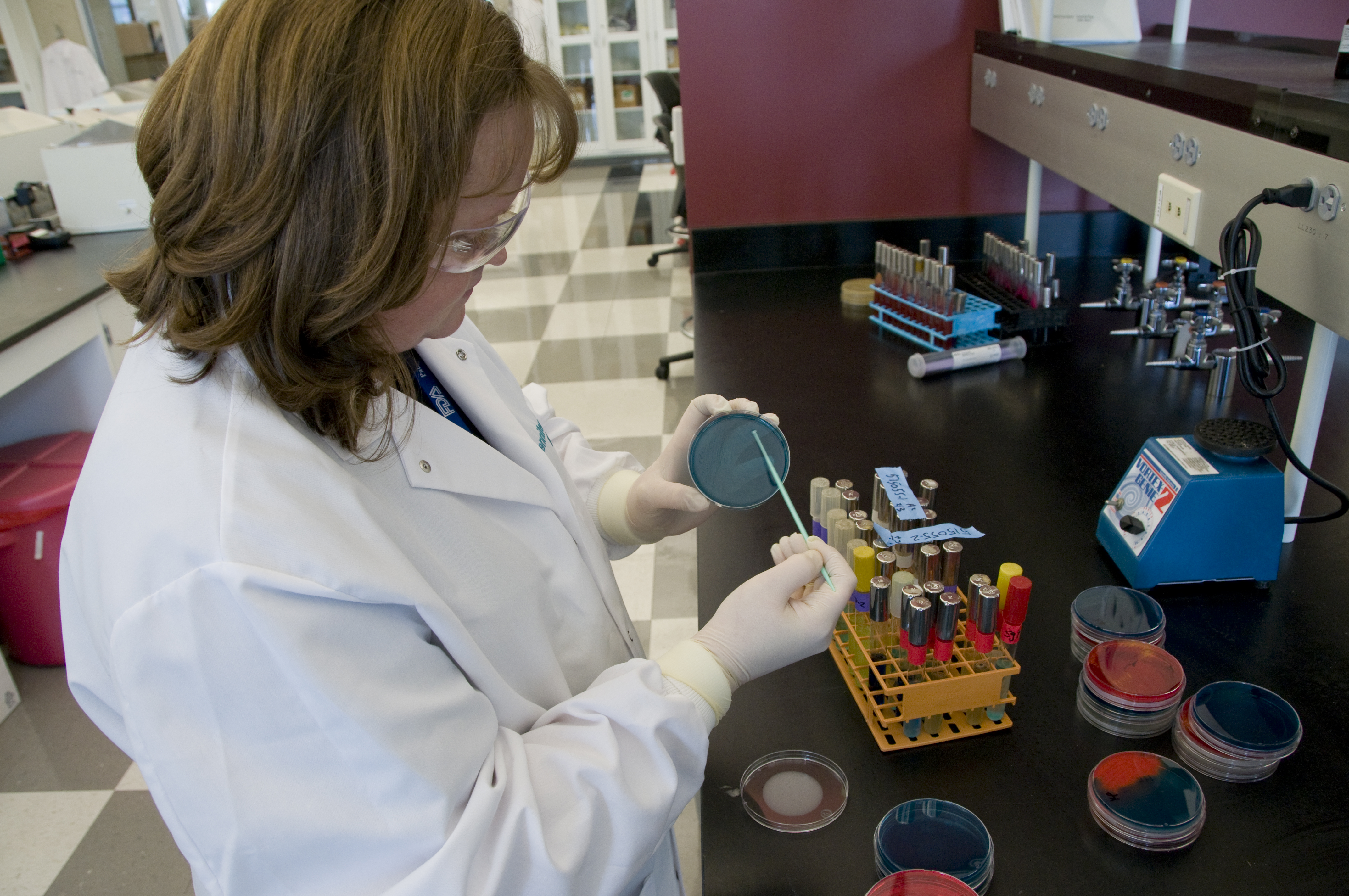 Feb. 5, 2009; Irvine, CA – An FDA microbiologist tests seafood samples for the presence of Salmonella. To learn more about how FDA is helping to ensure seafood safety, read these Consumer Updates: Fish Hazards and Controls: More Than a Fish Story How FDA Regulates Seafood: FDA Detains Imports of Farm-Raised Chinese Seafood FDA photo by Michael J. Ermarth